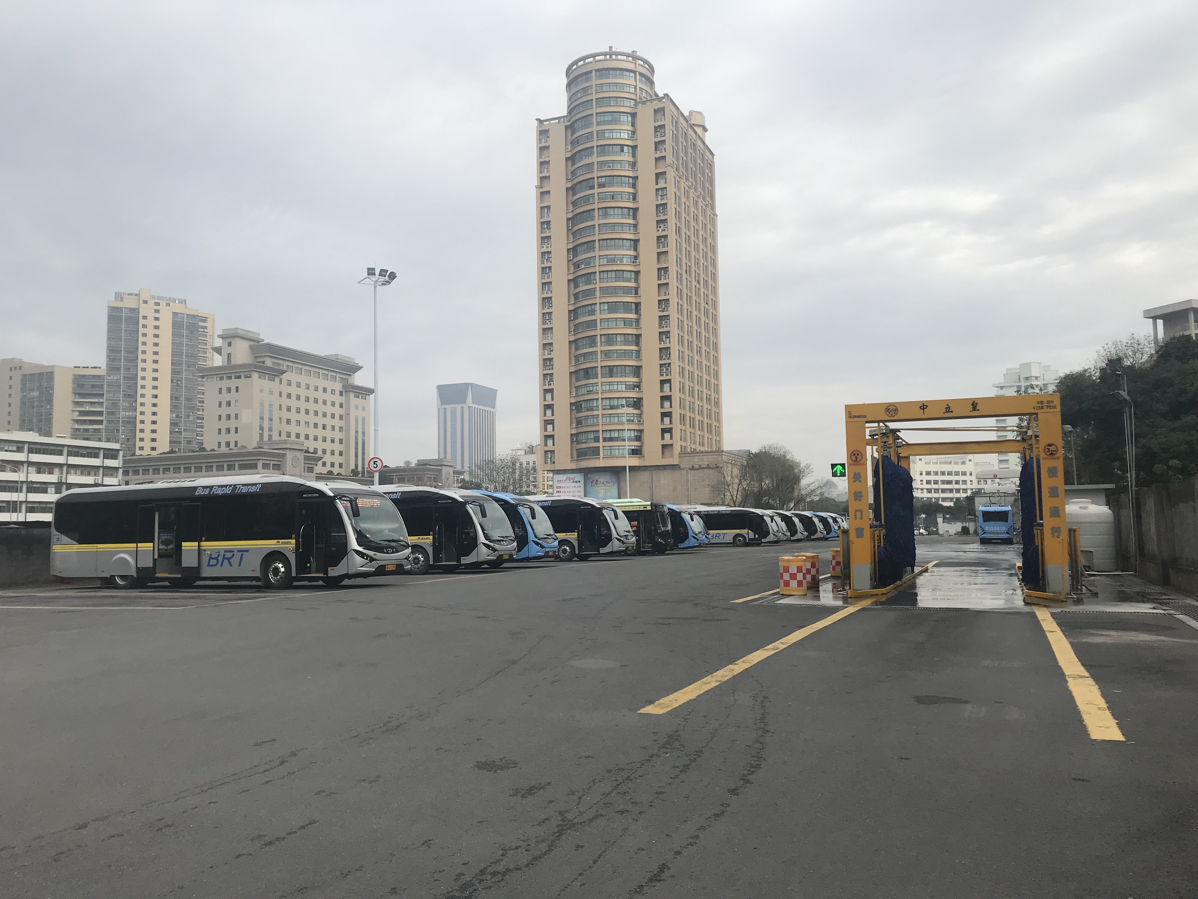 201812 Yongkang Street Temporary Bus Terminus